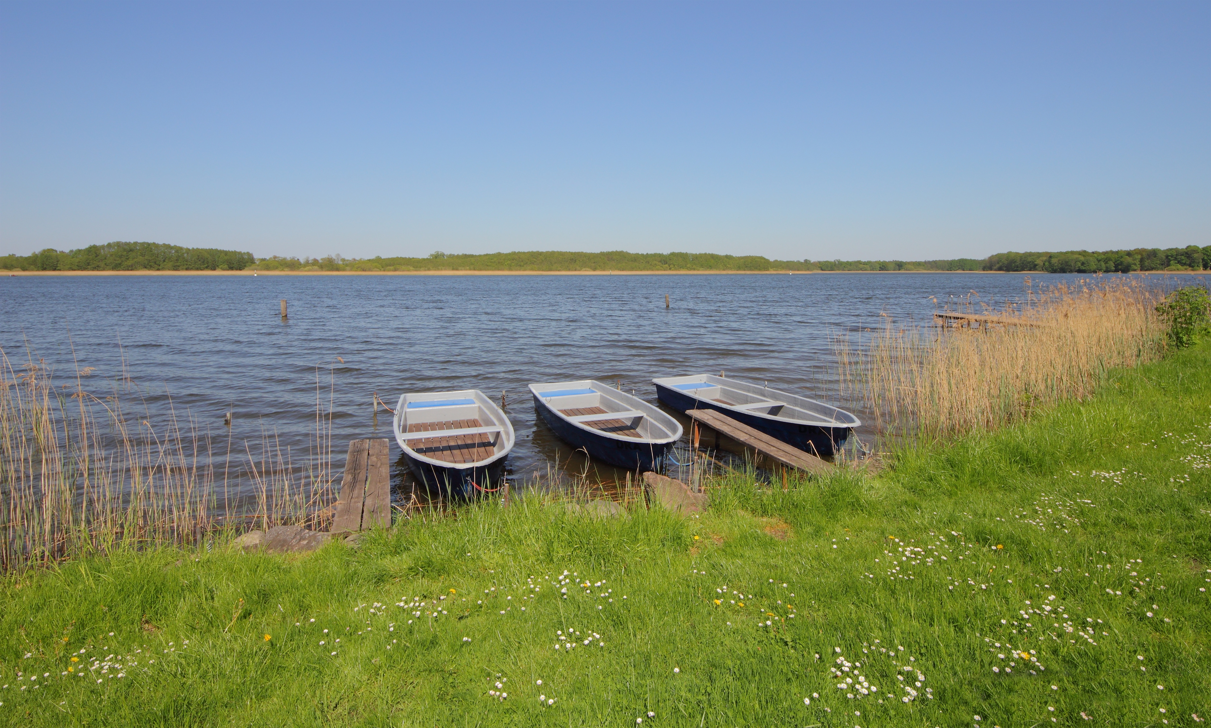 Lake of Ruppin as viewed from Wustrau (Fehrbellin), Brandenburg, Germany